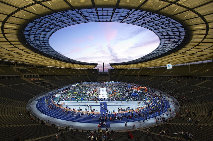 B2RUN Berlin 2012 Stadium Interior